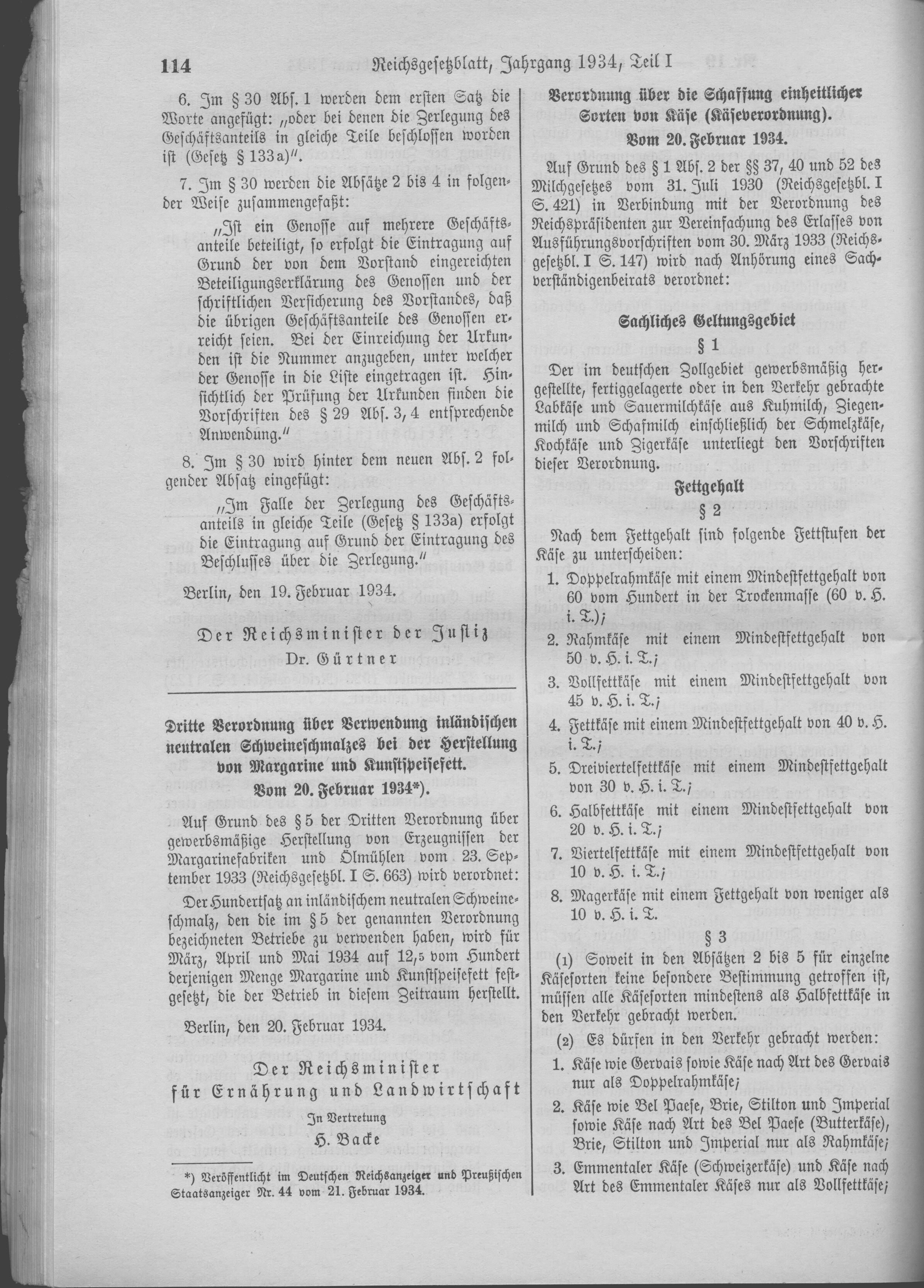 Scan from the Imperial Law Gazette of Germany, 1934, part 1